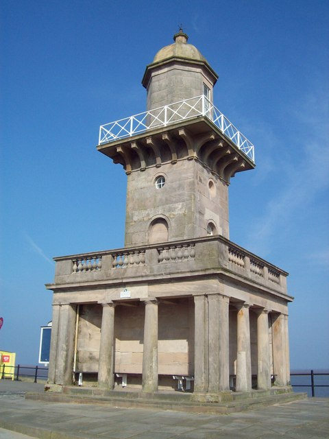 The Lower Lighthouse, near to Fleetwood, Lancashire, Great Britain. This is one of three Lighthouses built in Fleetwood . The Lower Lighthouse was designed in 1840 by Decimus Burton.The light from the lighthouse can be seen for 9 miles and is 30ft above the watermark.